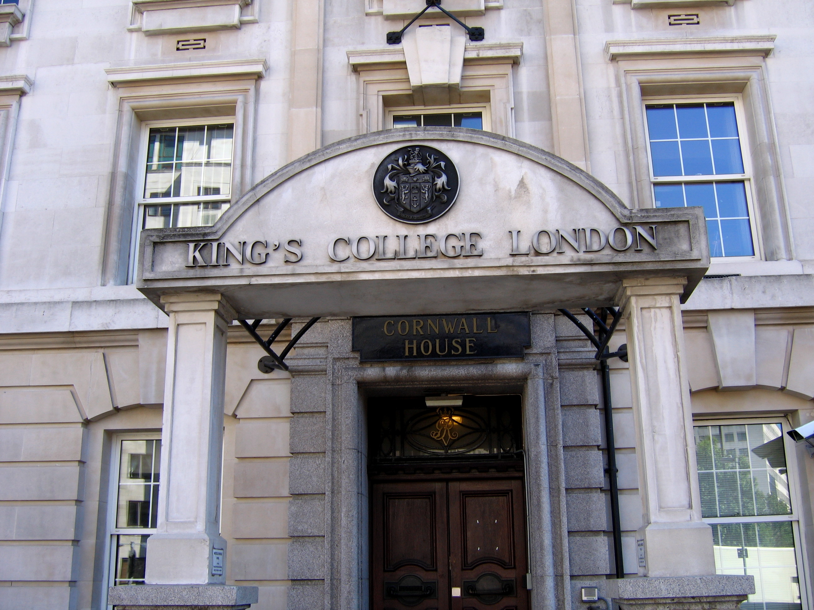 Cornwall House, King's College London, London, United Kingdom